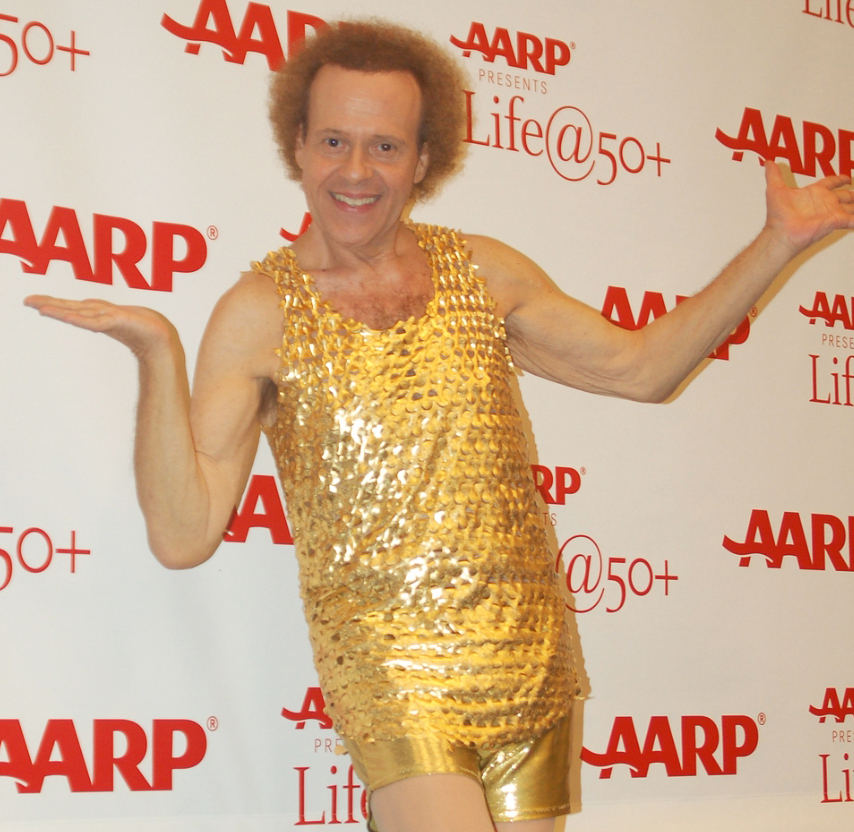 Richard Simmons attending the AARP's 2011 Life@50+ National Event and Expo in September 2011.